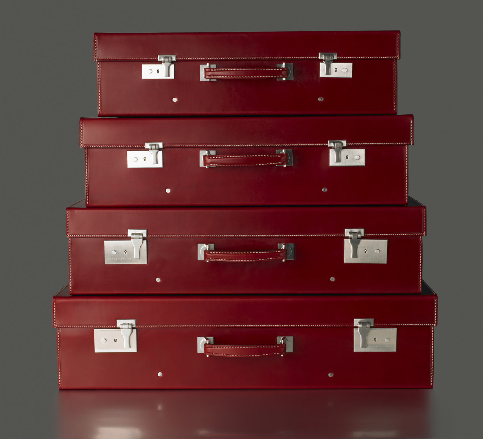 Bespoke red custom baggage - Tanner Krolle